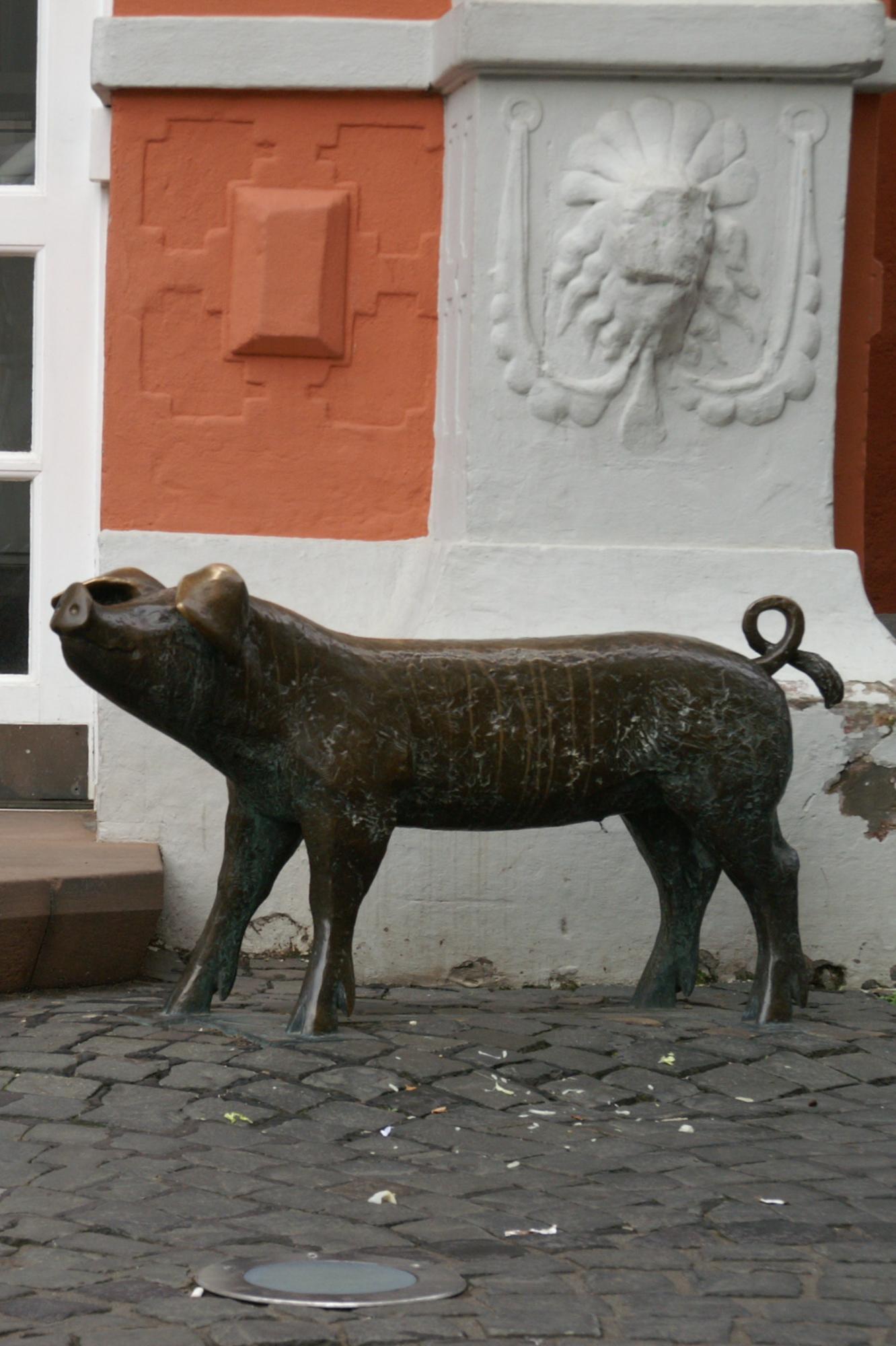 Monument of Säubrenner on Market square in Wittlich, Germany